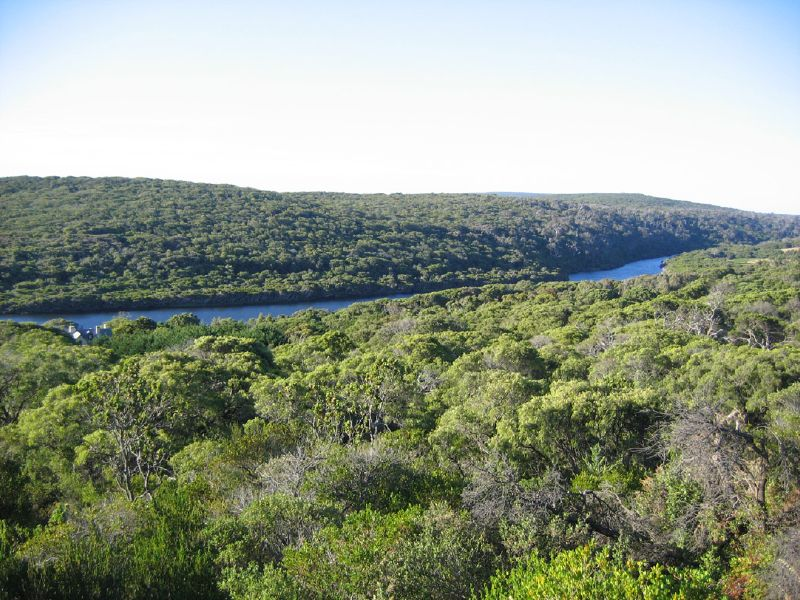 This is a picture of Margaret River (the river not the town) in southwest Western Australia